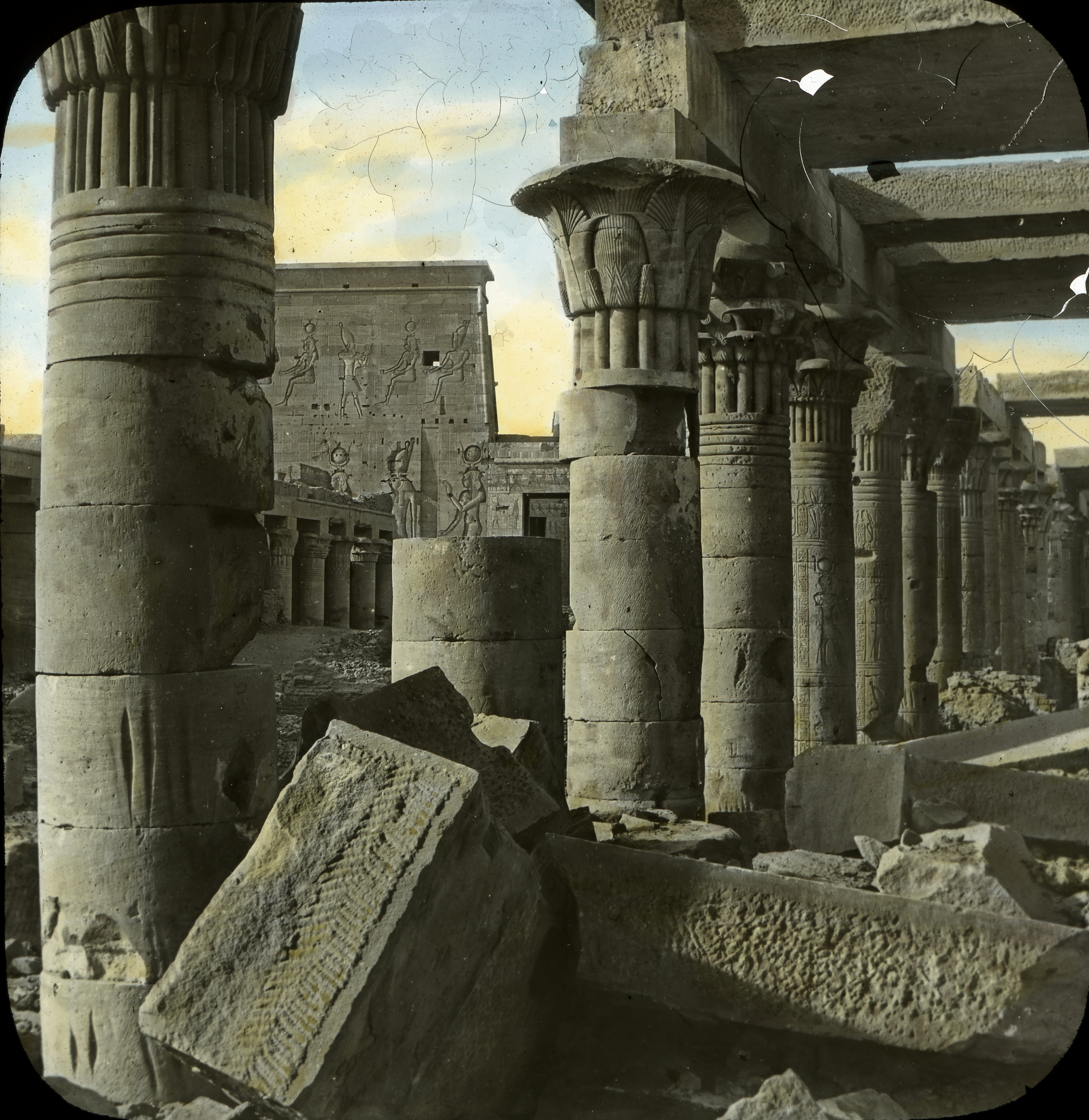 Lantern Slide Collection: Views, Objects: Egypt. Philae. [selected images]. View 04: Egypt - Philae. Columns., n.d., J. Levy & Cie Succrs. de Ferrier Pere, Fils & Soulier, Paris. Institute Egypt. Colored by Joseph Hawkes. Brooklyn Museum Archives (S10.08 Philae, image 9652).